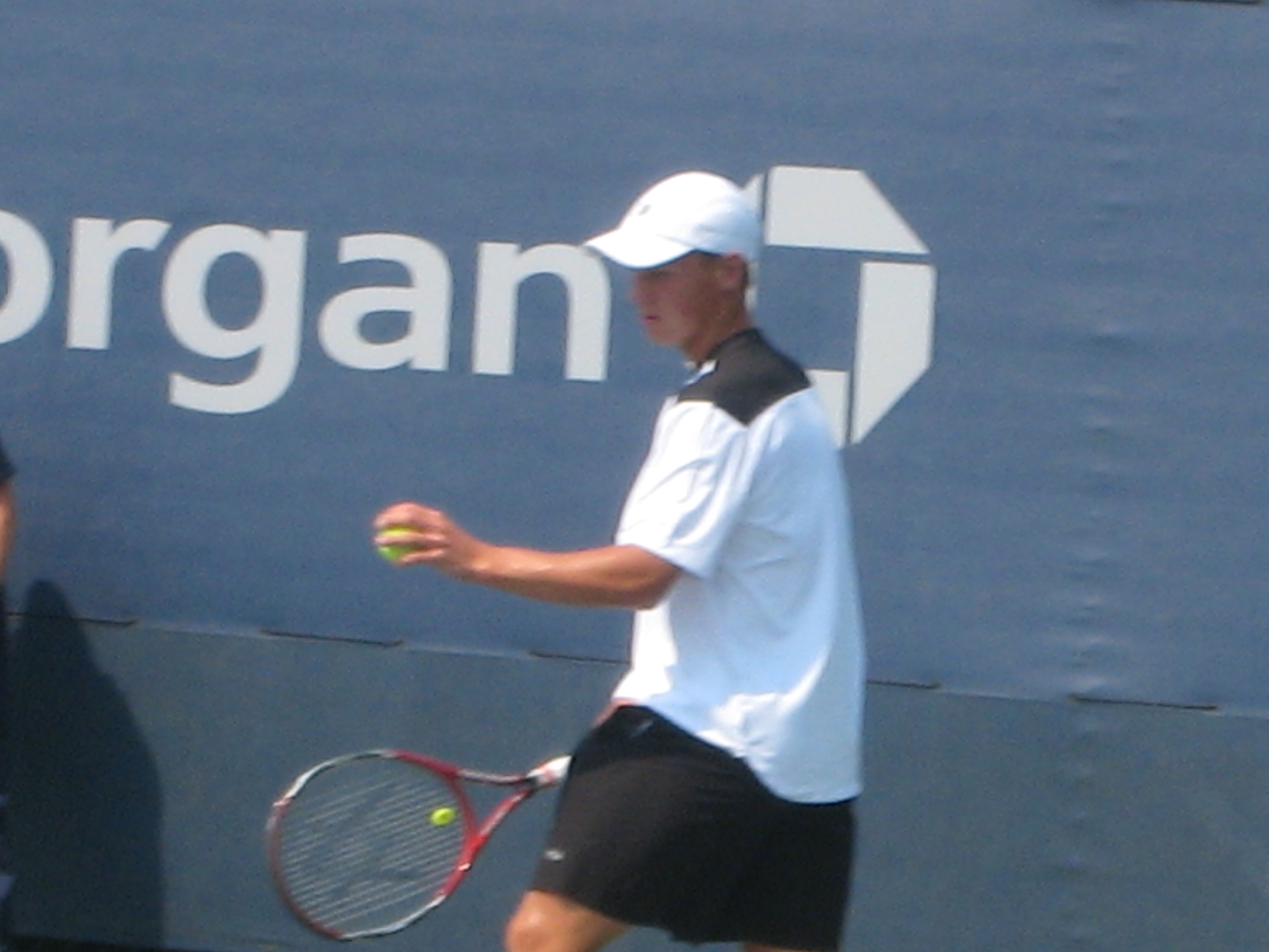 Tennis player Ricardas Berankis